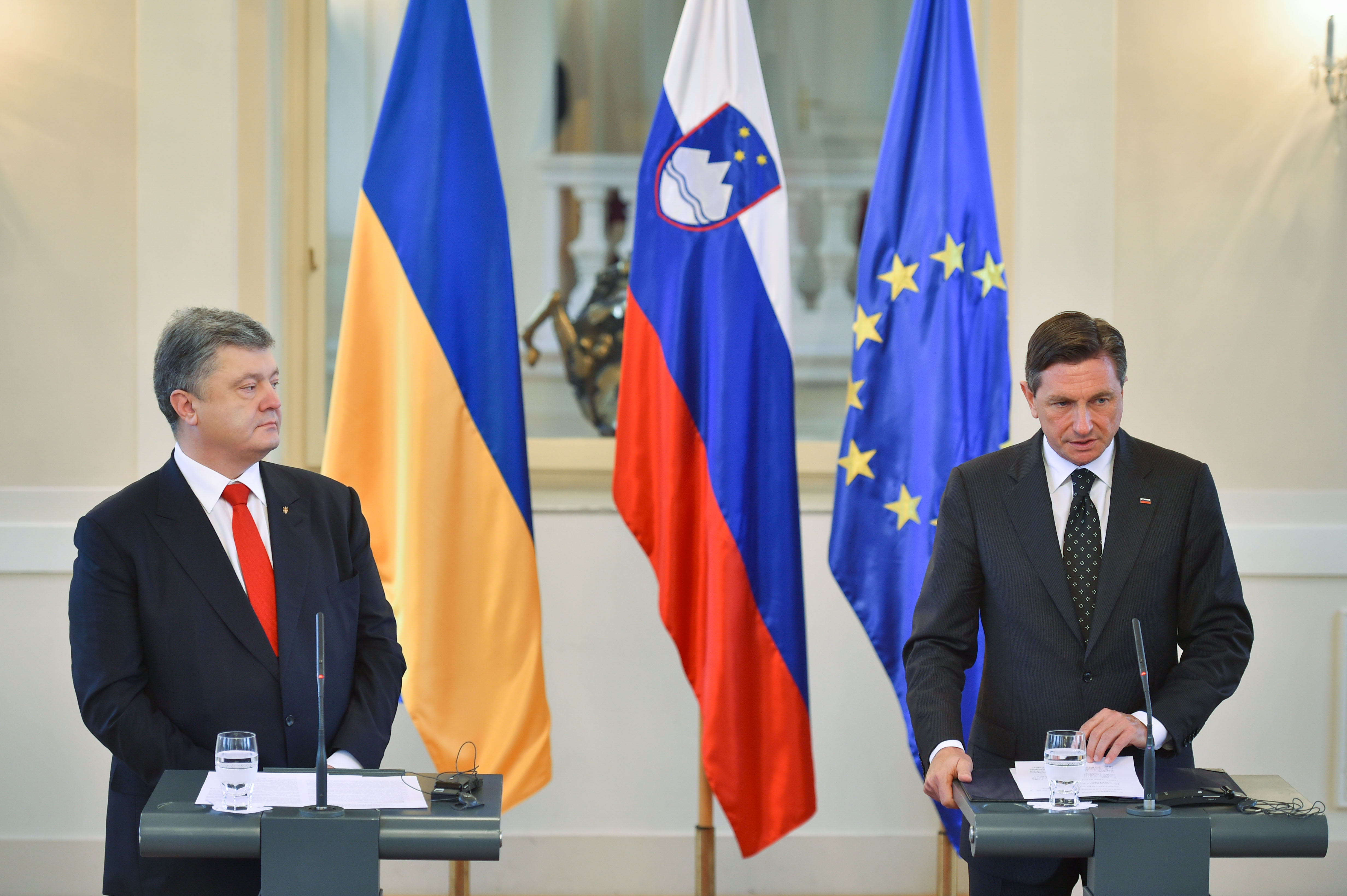 Petro Poroshenko in Slovenia in 2016.